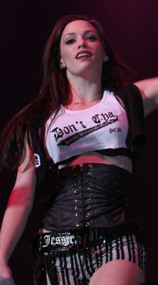 Jessica Sutta performed at Jingle Bell Bash 9 at the Tacoma Dome for KISS 106.1